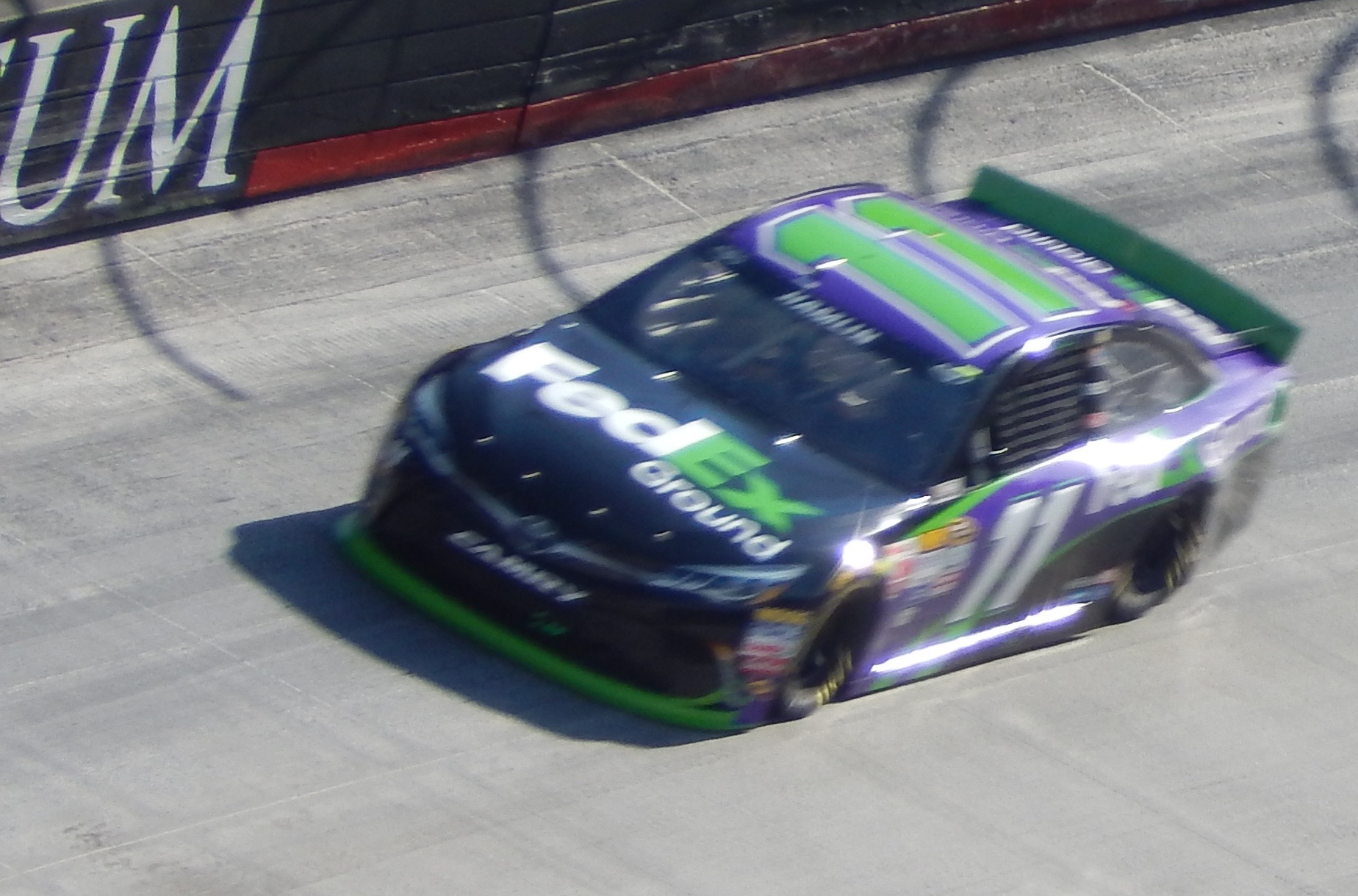 Denny Hamlin won the pole for the 2015 Irwin Tools Night Race at Bristol Motor Speedway.